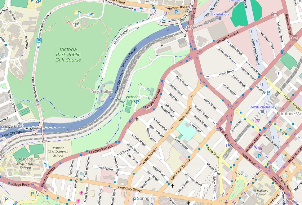 Open Street Map - Gregory Terrace, 2015